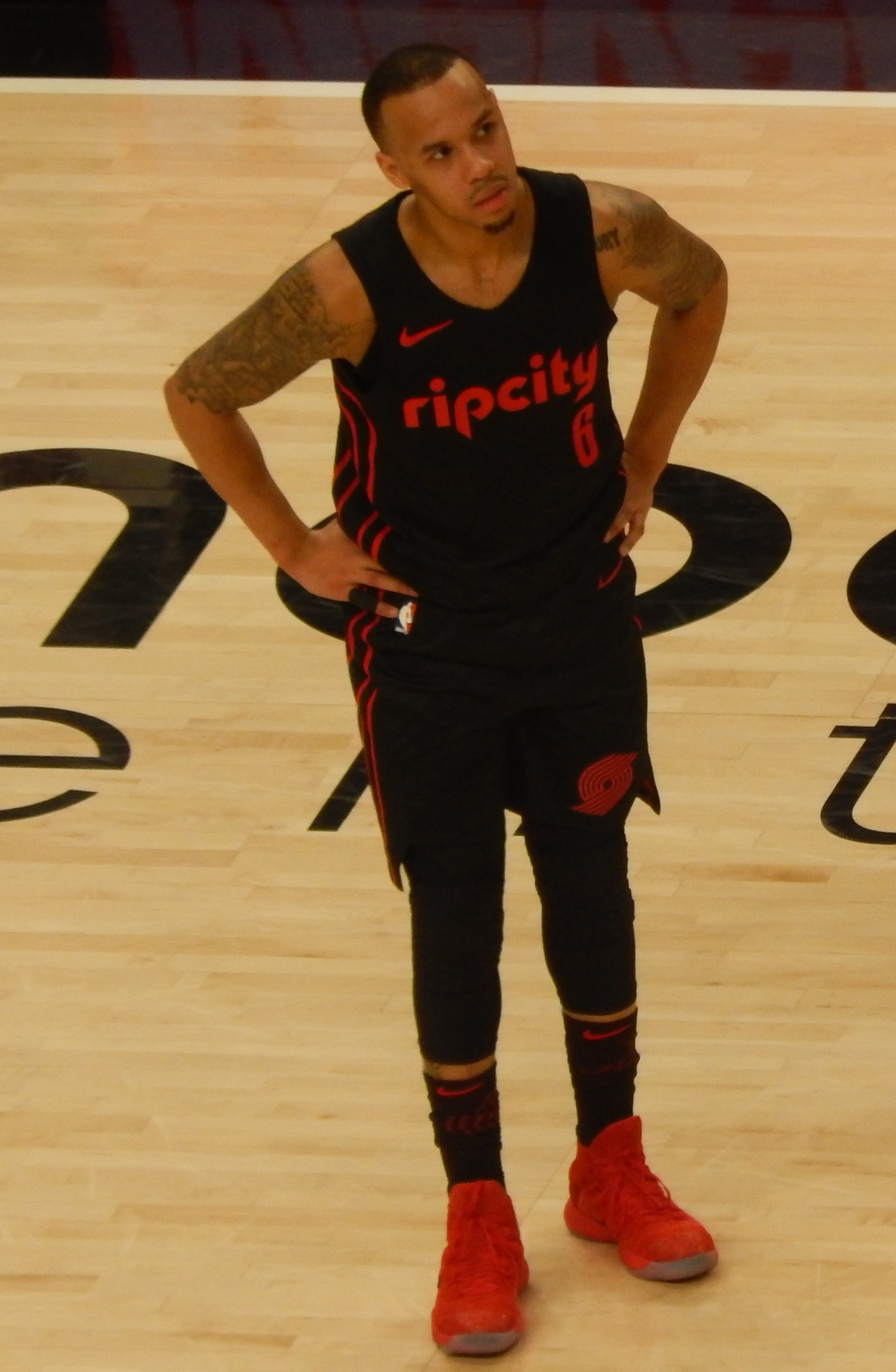 Shabazz Napier #6 of the Portland Trail Blazers against the Sacramento Kings on February 27, 2018 at Moda Center in Portland, Oregon.